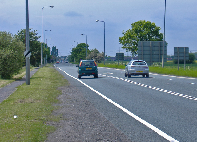 A18, Gunness. This stretch of road is known locally as Gunness Straight. It seems to induce overtaking mania in many motorists, in - as this shot shows - clear contravention of road markings.